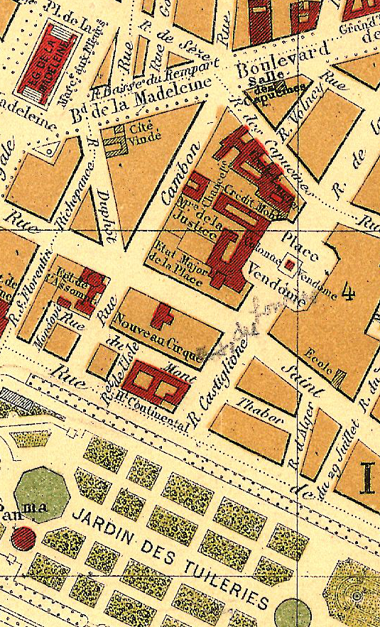 Detail of an 1893 map of Paris showing the location of the Nouveau Cirque (formerly the Panorama Français)